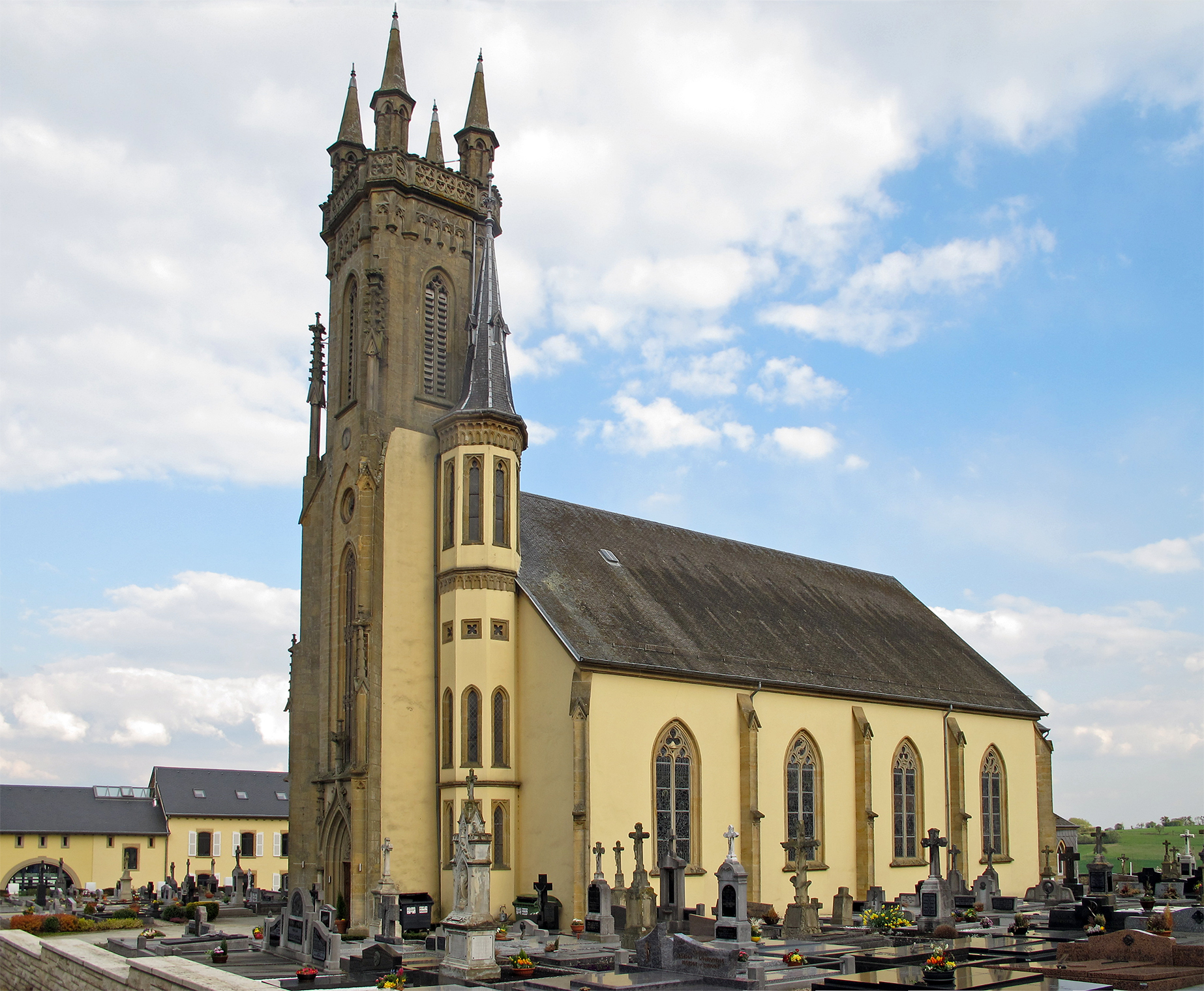 Church of Niederanven, Luxembourg